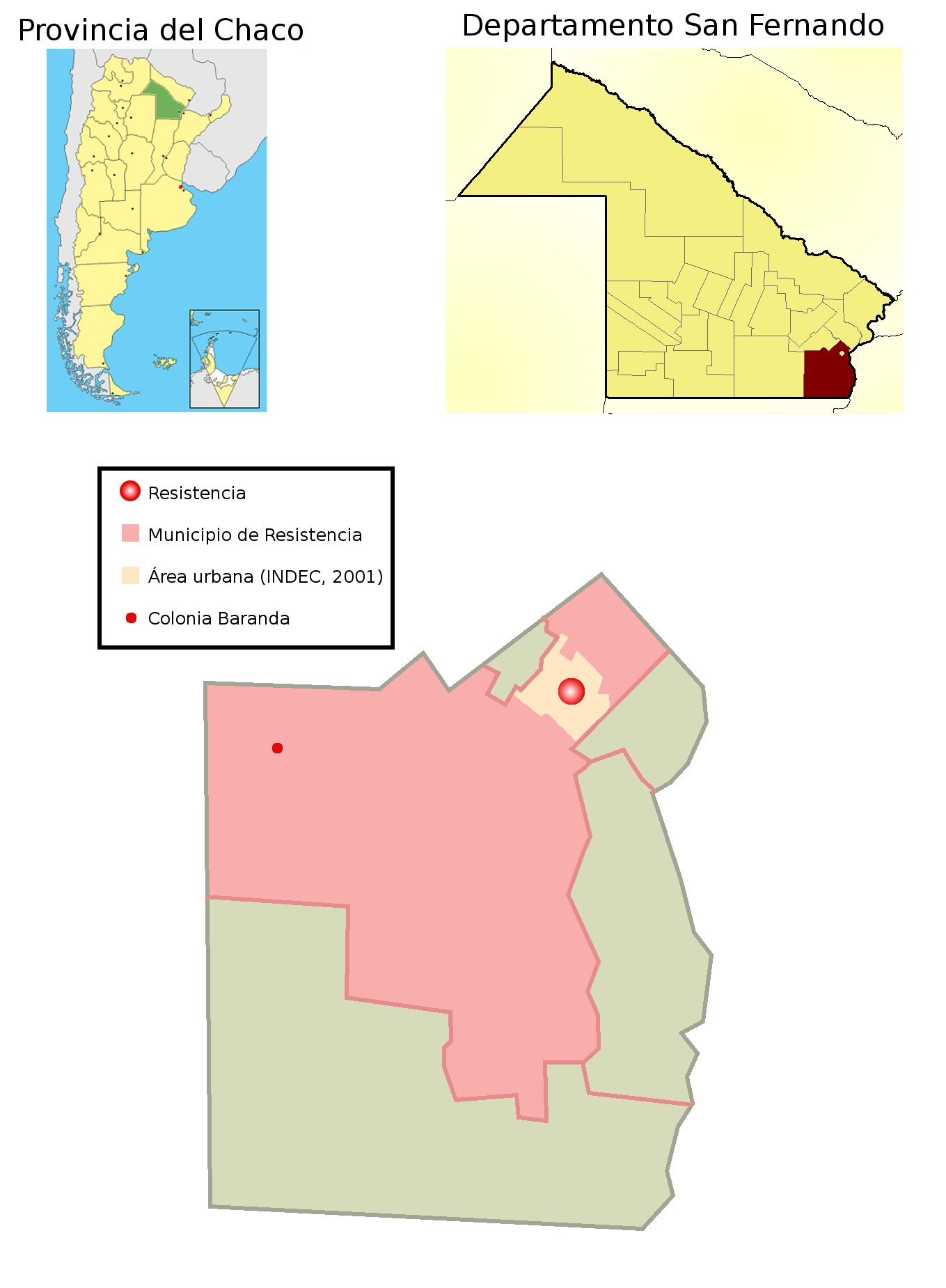 A map showing municipio of Resistencia in San Fernando department, Chaco Province, Argentina. Also shows Resistencia city location, its urban sector (according to INDEC Census in 2001) and Colonia Baranda town location.